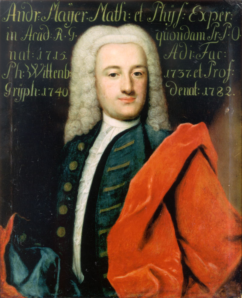 Andreas Mayer (1716-1782), German mathematician